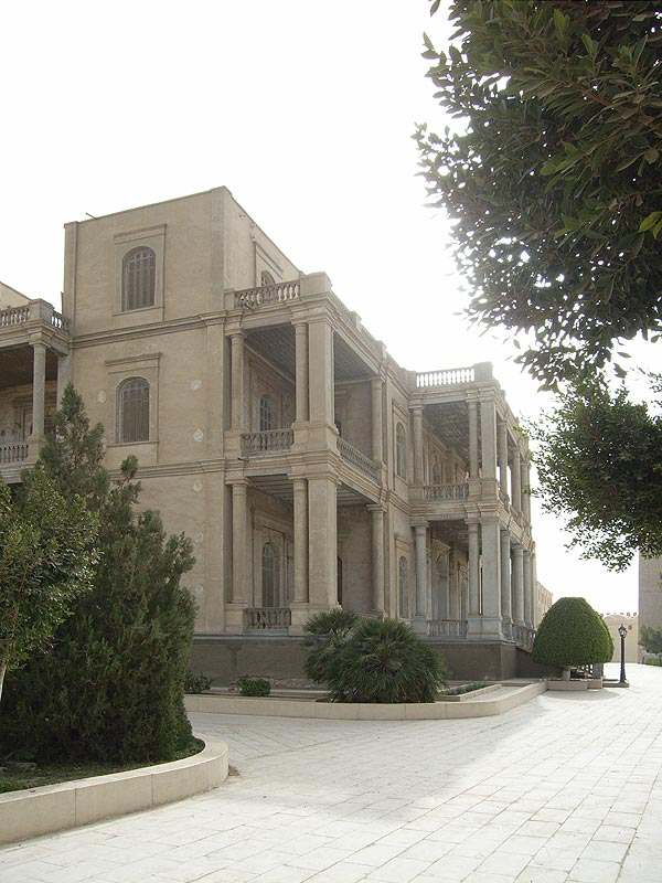 The 19th century "Pachomian Castle" building — in the Deir el-Muharraq (Muharraq Monastery), in the Asyut Governorate, Middle Egypt. The Coptic Christian complex was founded in the 4th century.